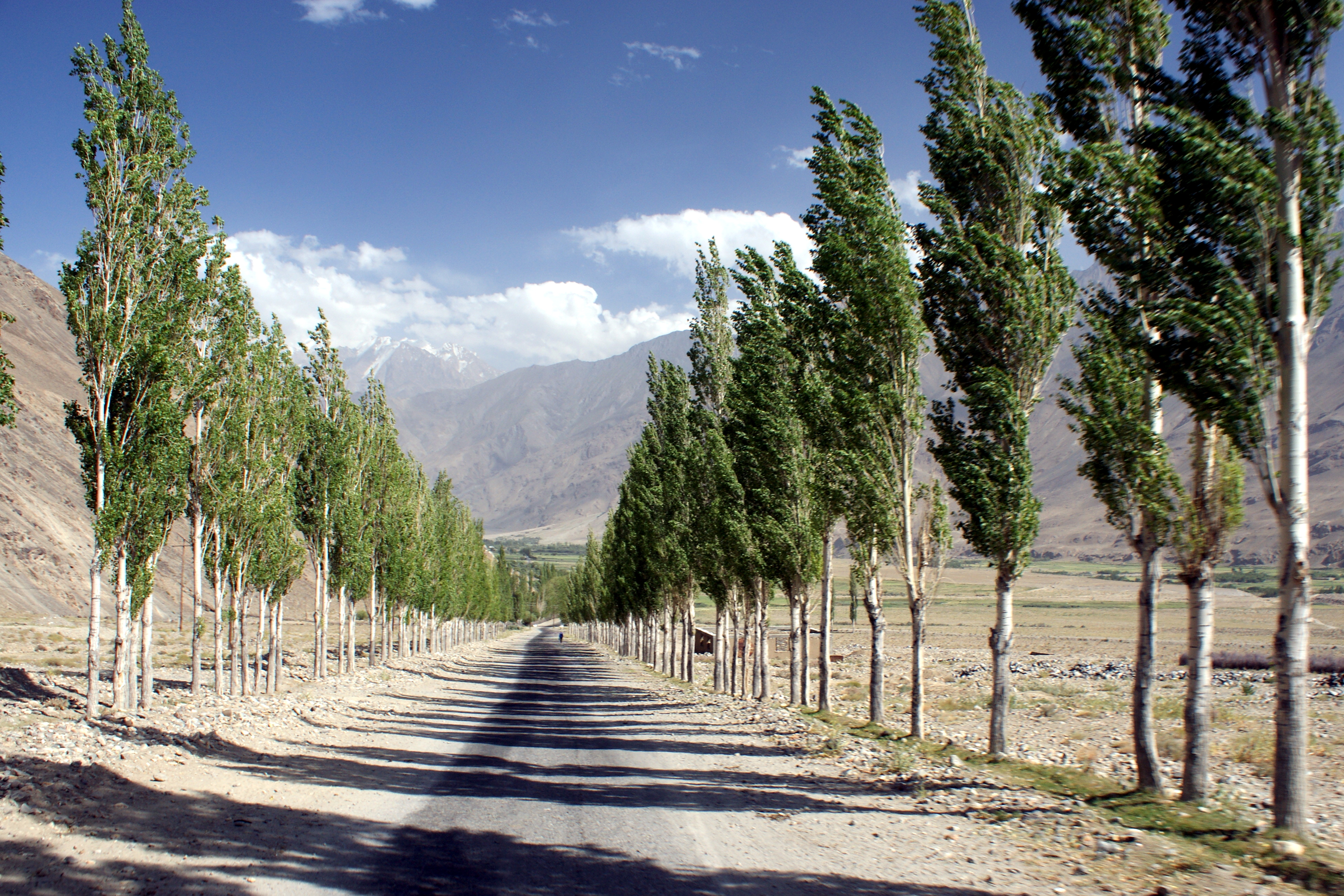 east of Ishkashim